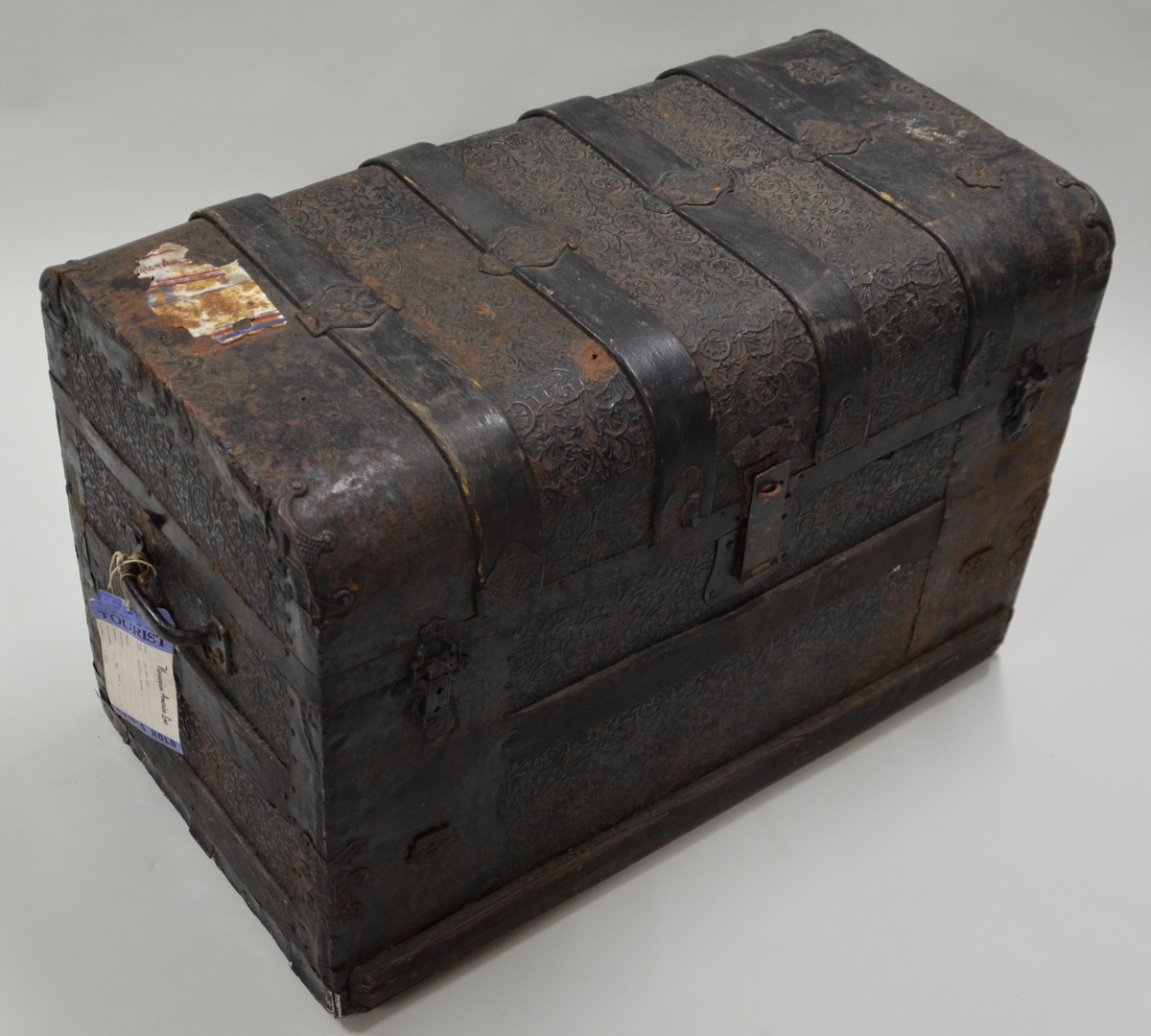 Travel chest used by Norwegian-American Mathias Rasmussen Hole (1877-1962), most probably bought in the US for a visit back to Norway.